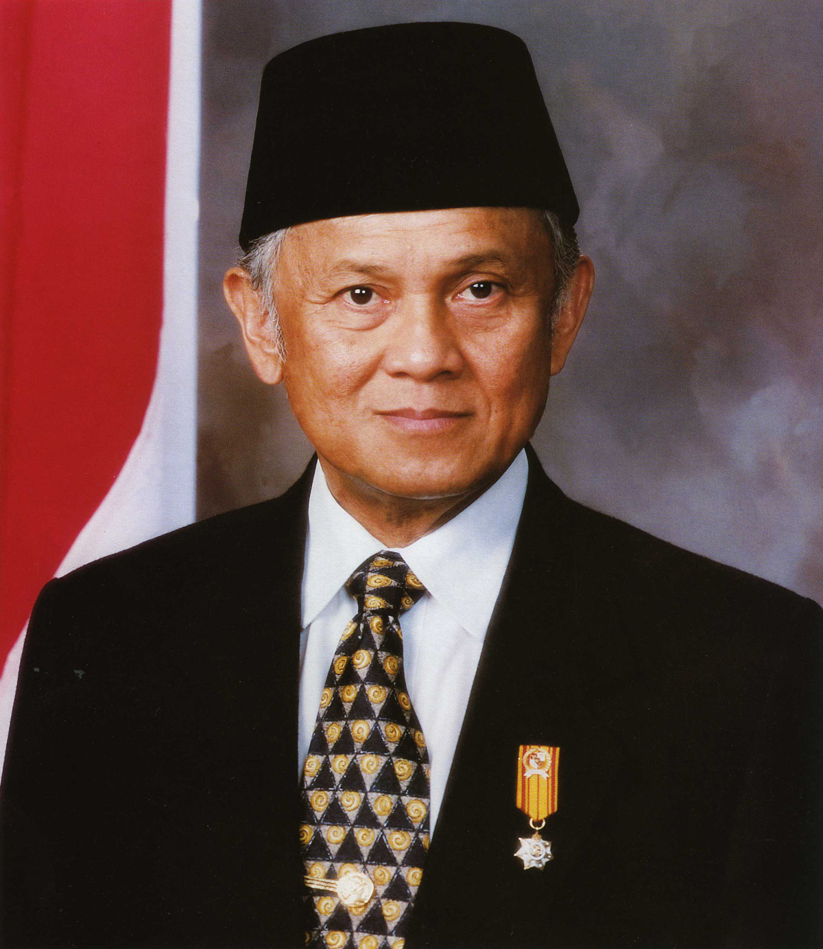 Bacharuddin Jusuf Habibie, 7th Vice President of Indonesia